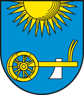 Coat of arms of the municipality Gelting in Schleswig-Holstein, Germany.